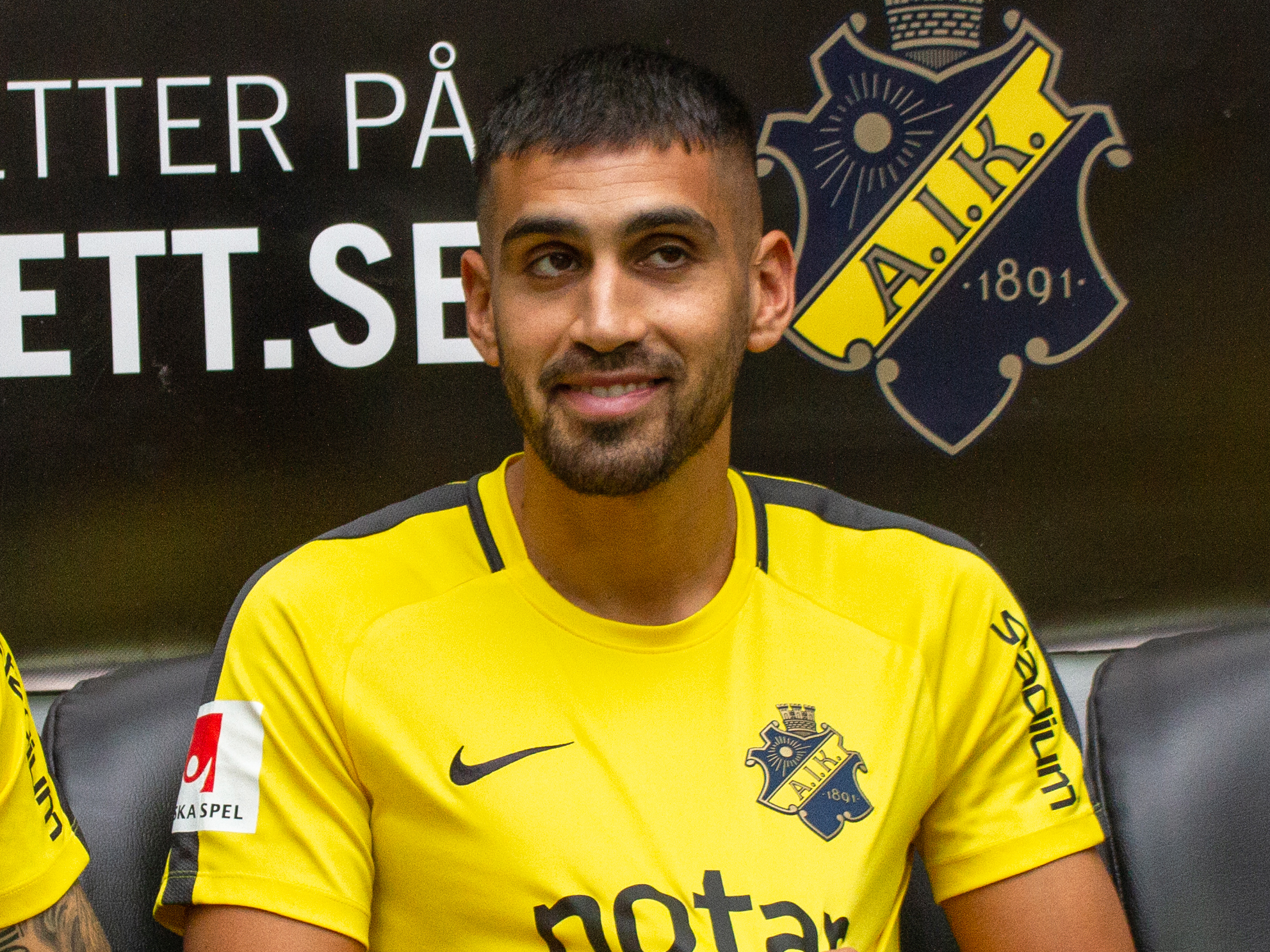 Stefan Silva in July 2018